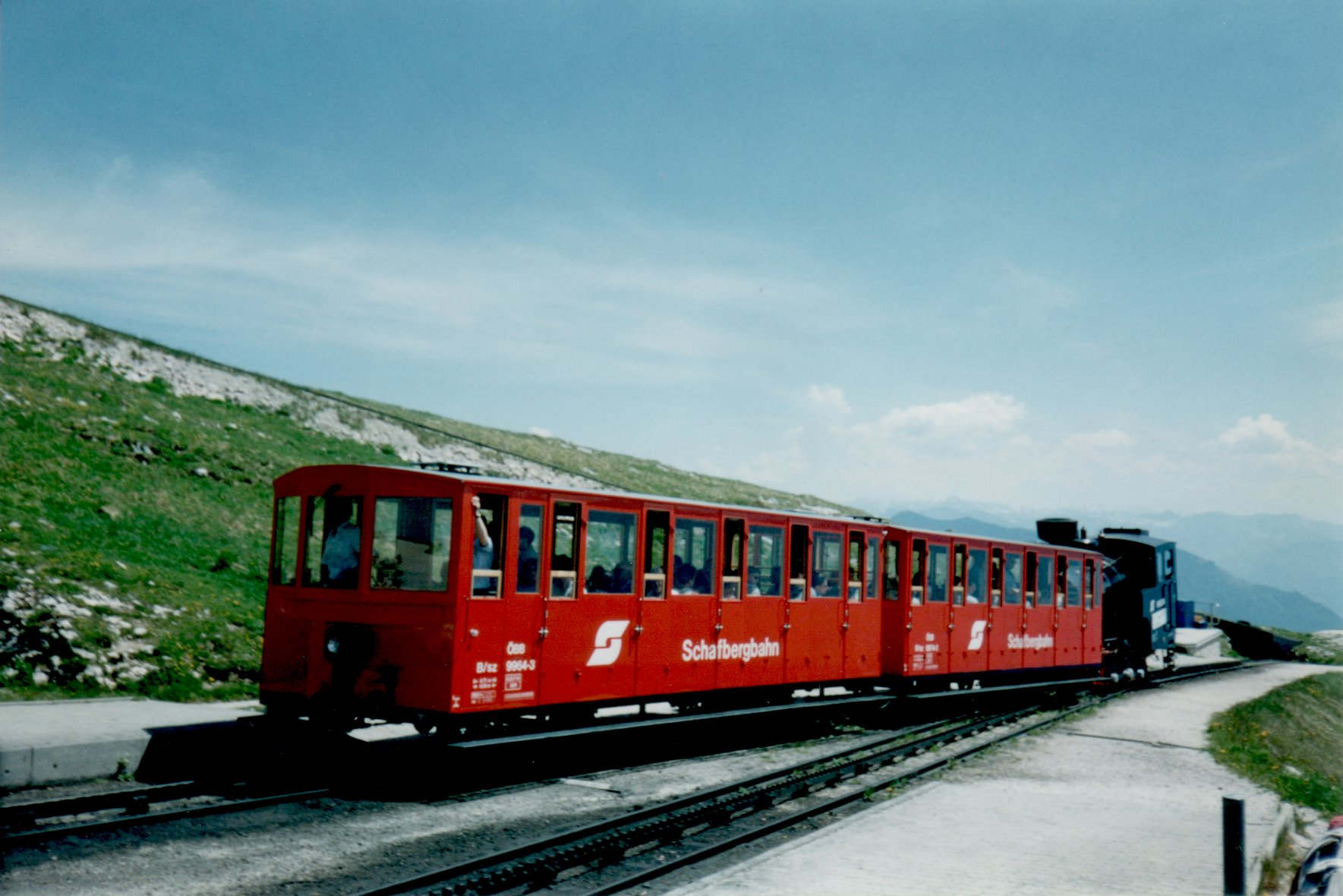 Schafbergbahn steam lococomotive with two carriages just below the summit station, Schafberg, Austria. Scanned from a print in 2006.